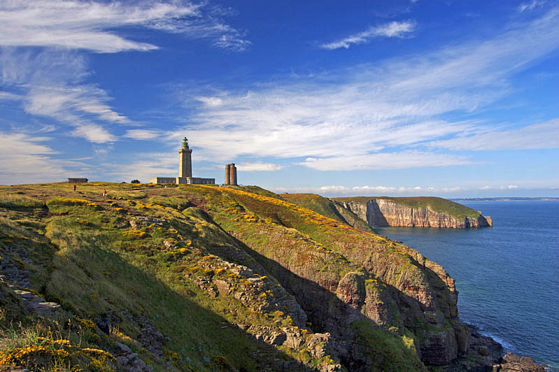 The lighthouse on the multi coloured cliffs of Cap Frehel in Côtes d'Armor, France